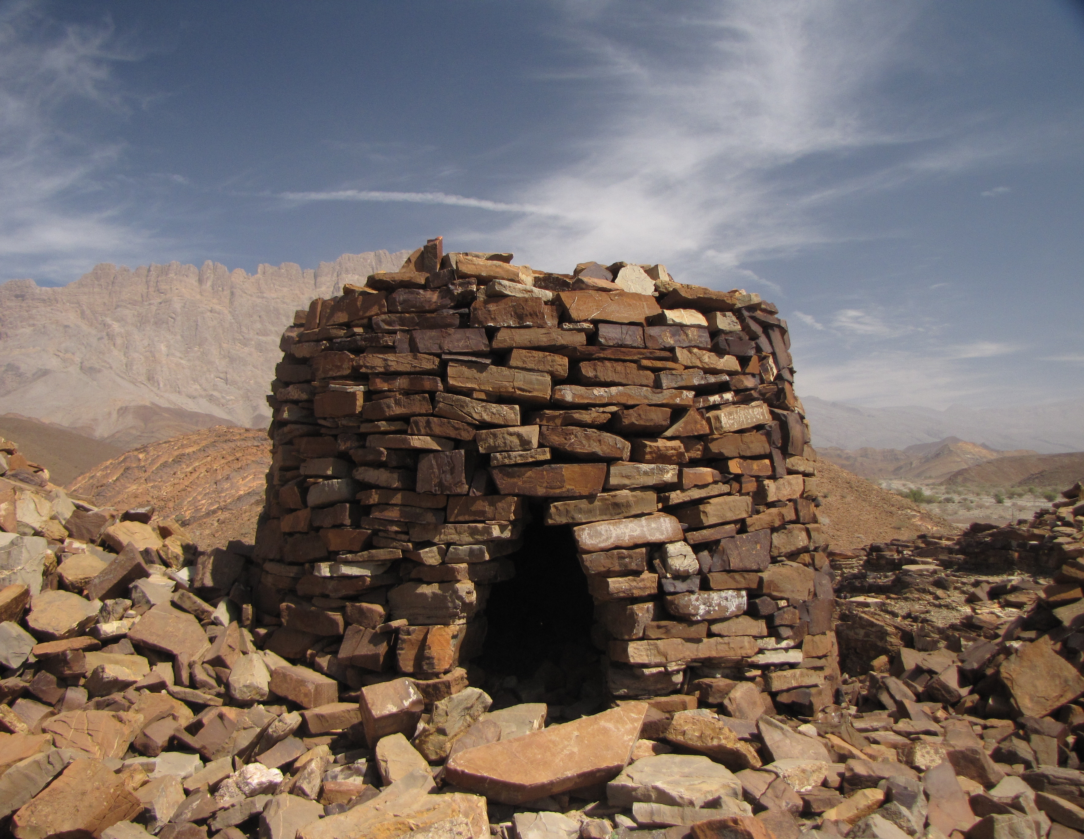 World Heritage Grave at Al Ayn / Oman